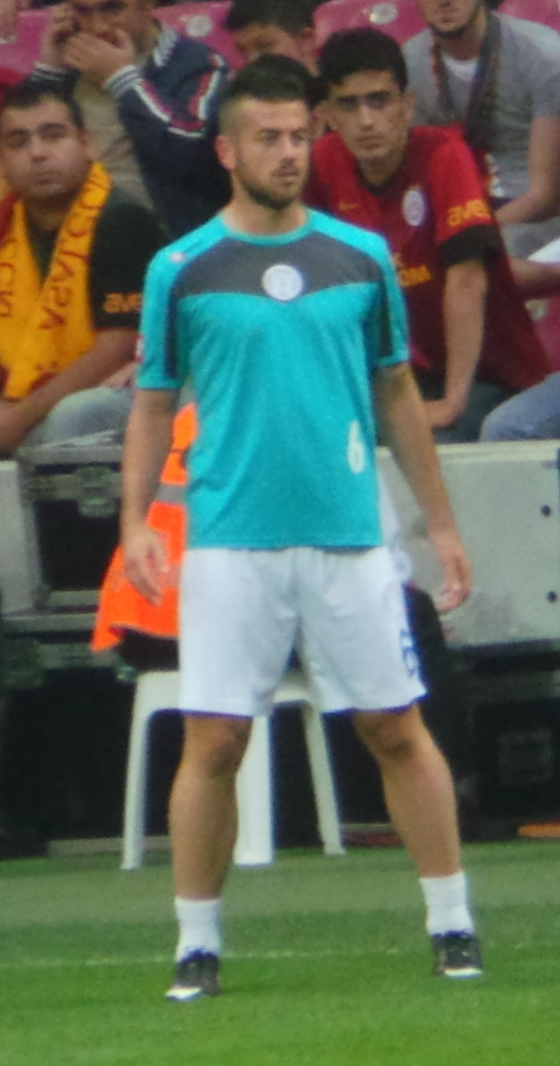 Kağan with rise